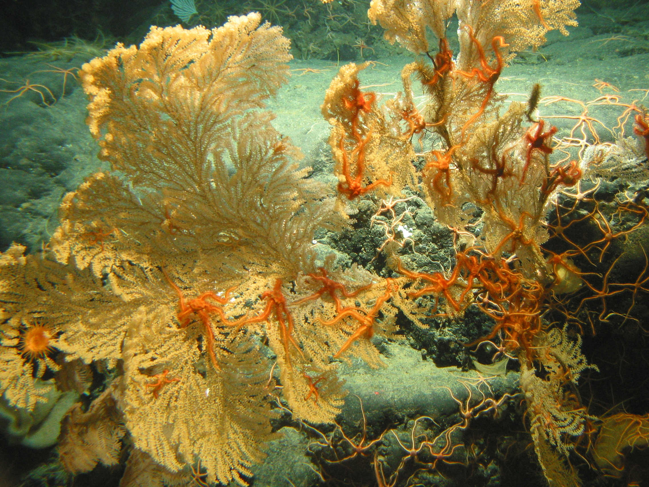 Gulf of Alaska Seamount Expedition. Large primnoid coral loaded with brittle stars on Dickins Seamount. Pacific Ocean, Gulf of Alaska.